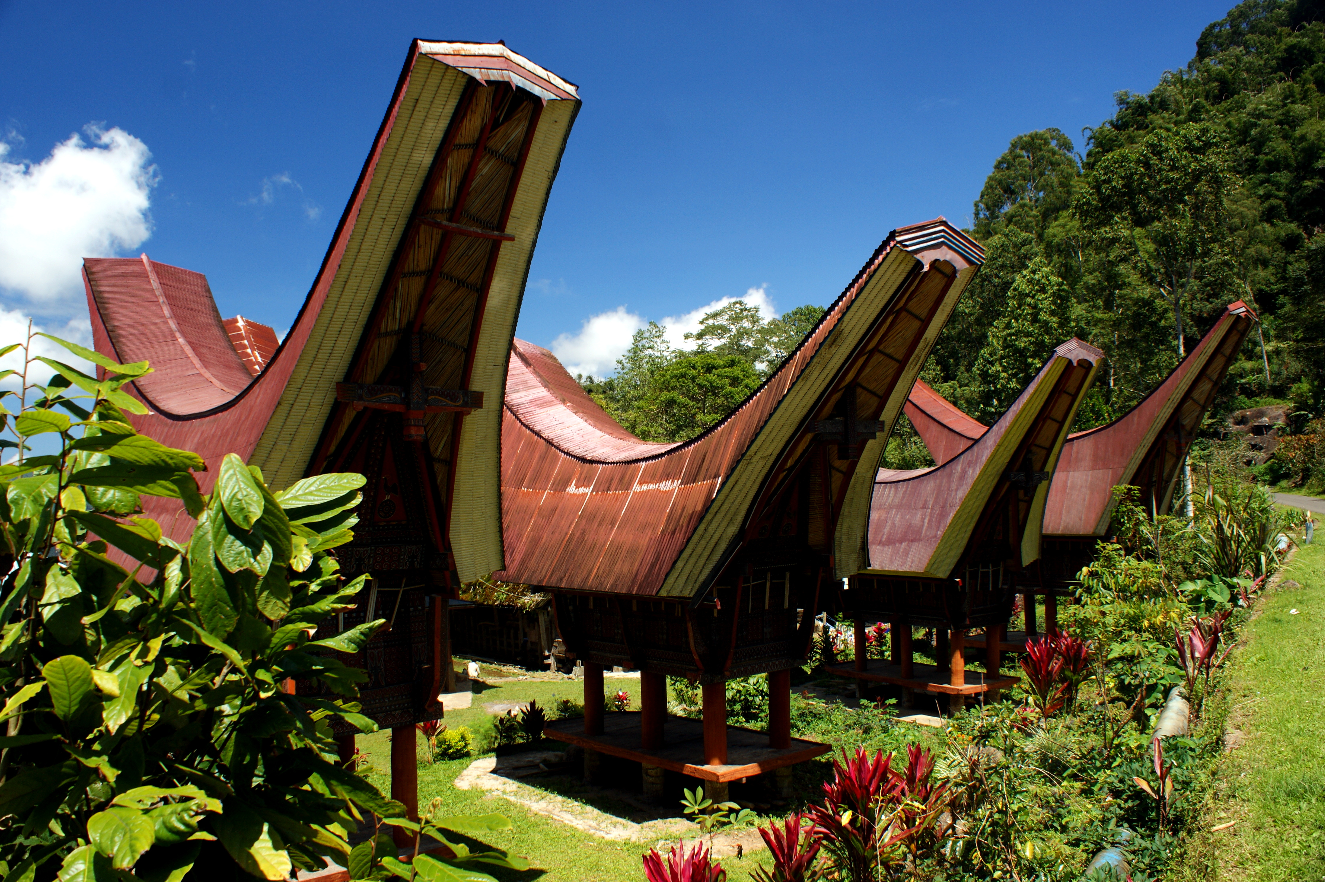 Traditional Houses in Tana Toraja Regency